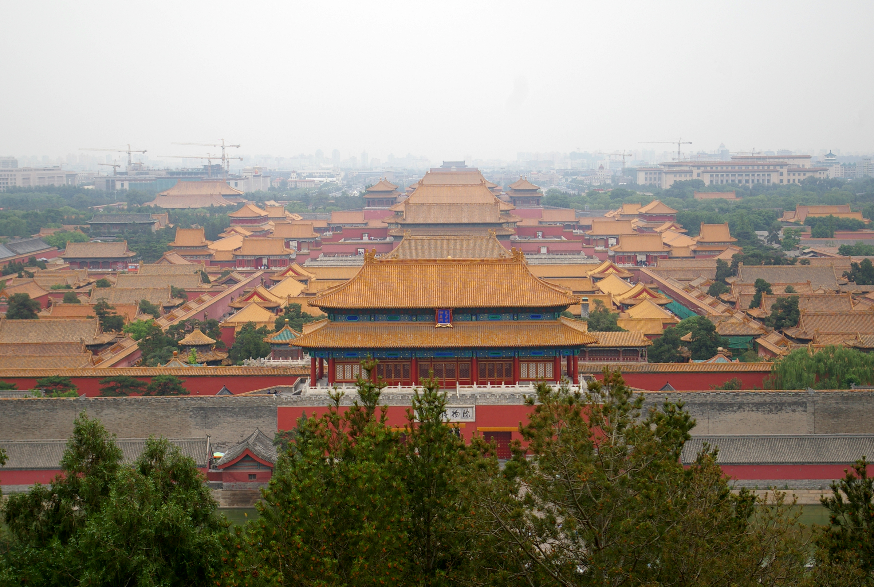 Forbidden City in Beijing seen from Jingshan hill